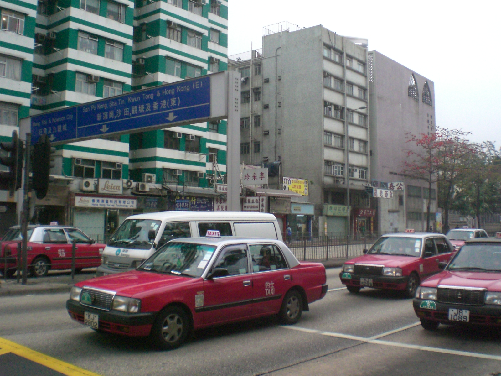 馬頭涌道135號聖三一堂